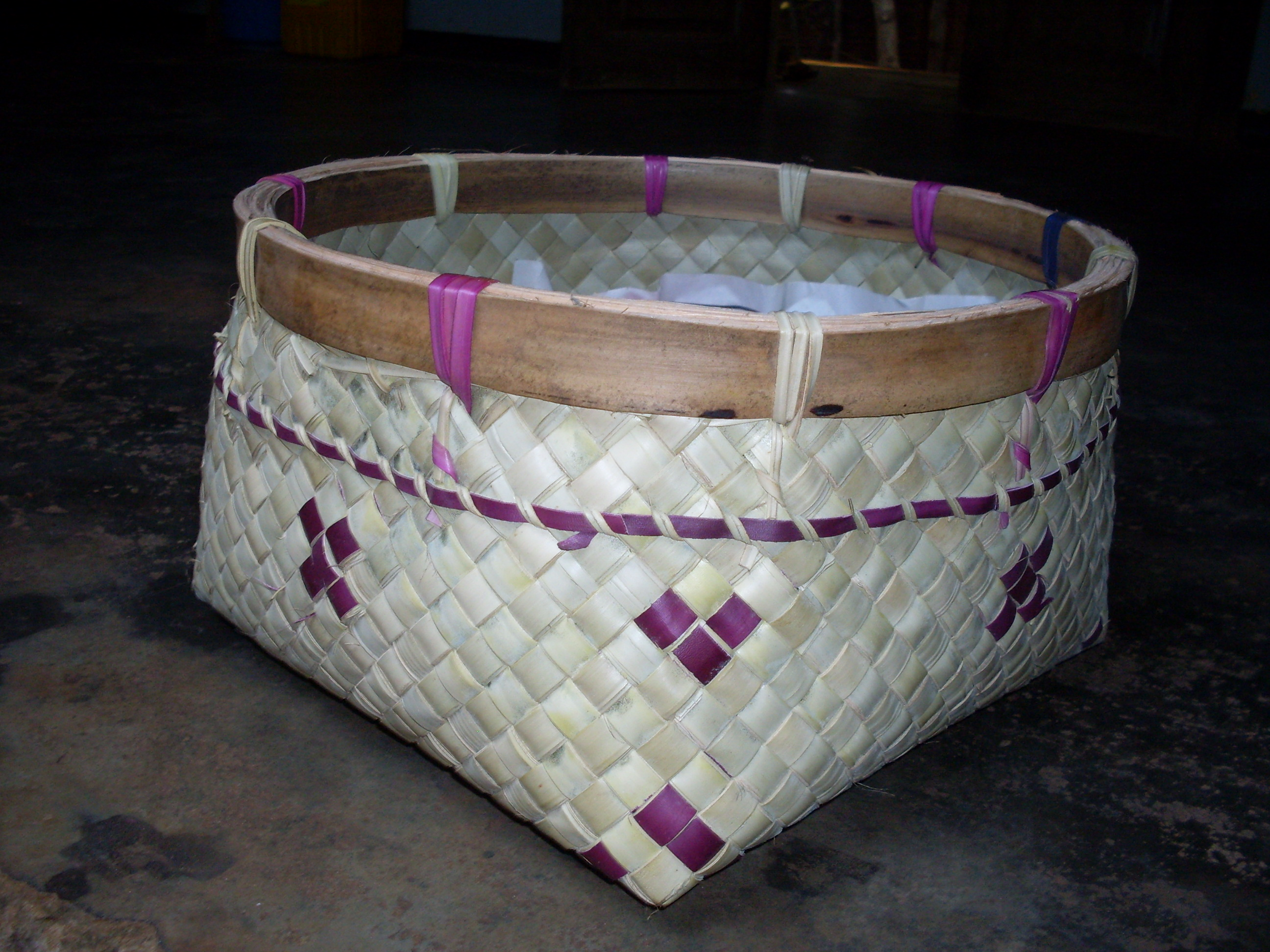 "Kadakam" produced and used in Jaffna.